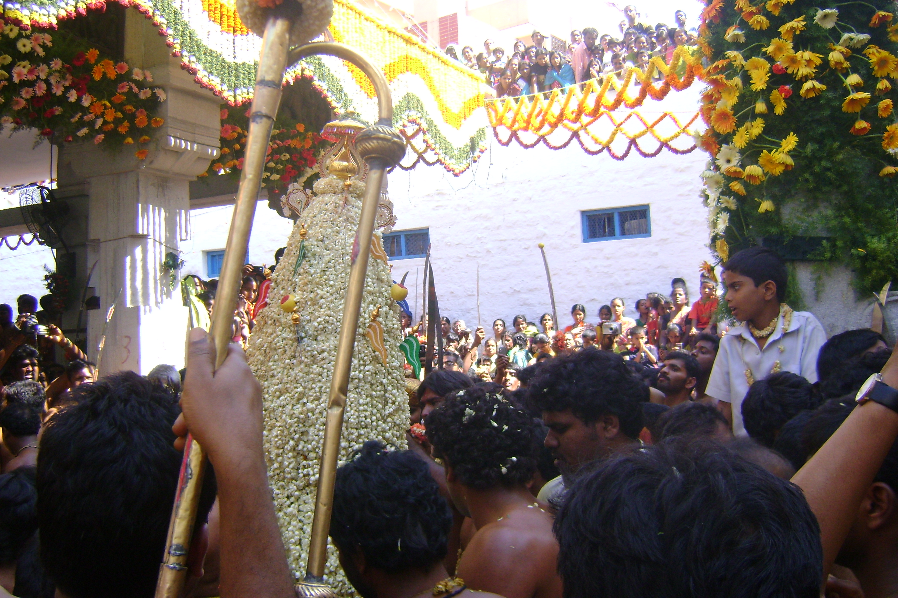 The Poo Karagu or Theru Karaga returning to the Temple in the morning for one last round.